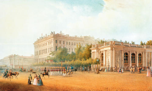 Vasily Sadovnikov (1800-79). View of the Anichkov Palace (1862).